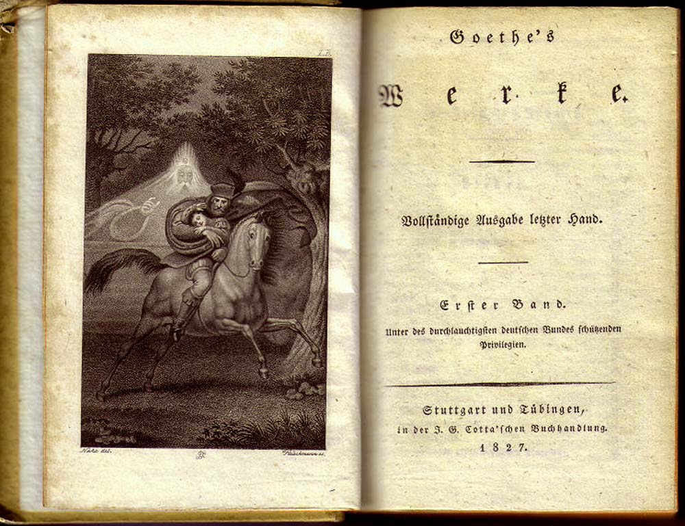 Title page of the first book of the final complete edition of Goethe's works "Vollständige Ausgabe letzter Hand").